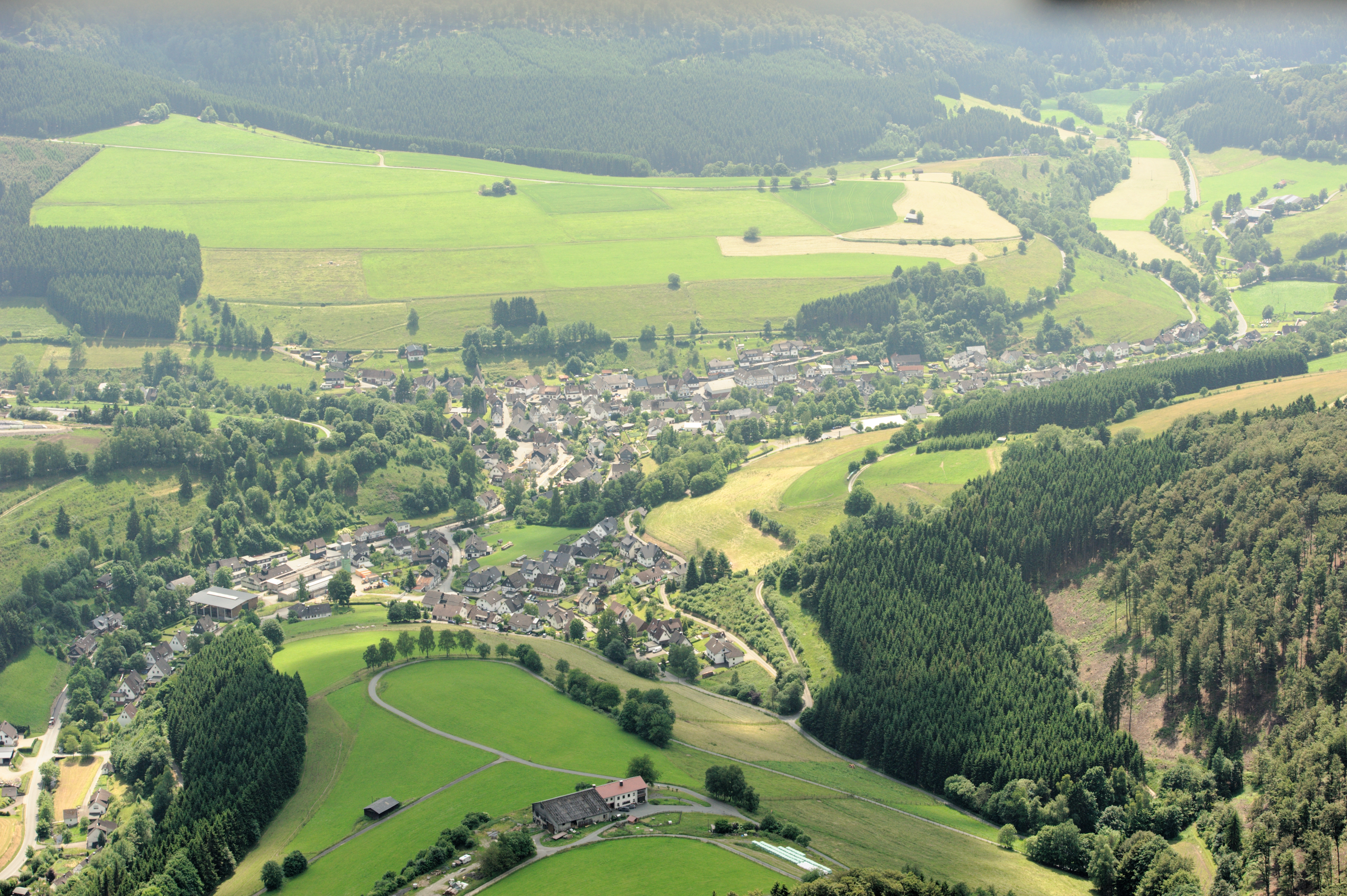 Fotoflug Sauerland-Ost: Girkhausen, vorne der Schulzenhof; Blickrichtung Süden. The making of this document was supported by the Community-Budget of Wikimedia Germany.